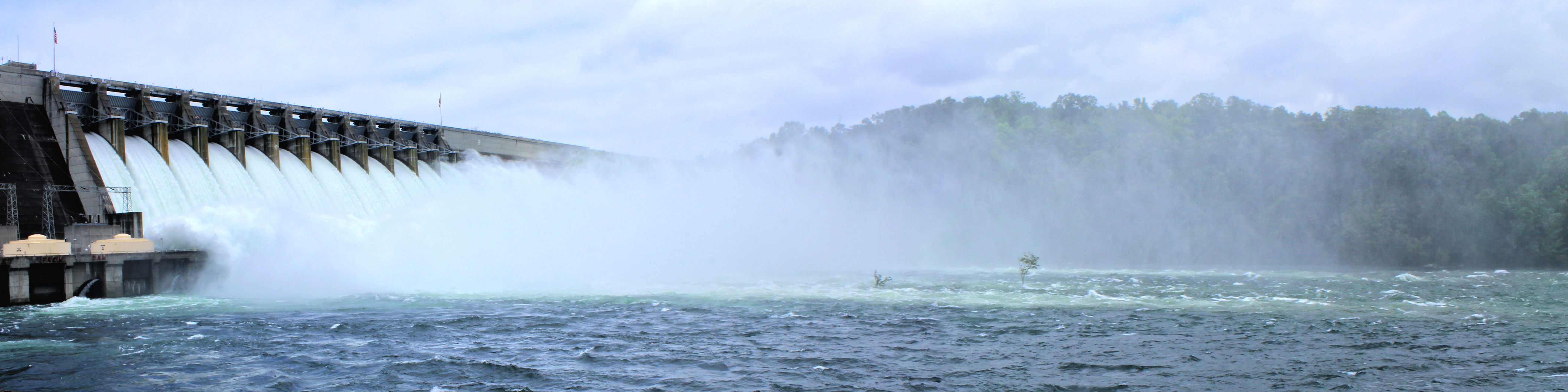 The U.S. Army Corps of Engineers Savannah District tested the spillway gates at the Hartwell Dam, July 10, 2013. The test was part of the Savannah District's Dam Safety Program to ensure the gates can be activated properly in the event of an emergency. Photo by Jenny Vickery, used with permission.